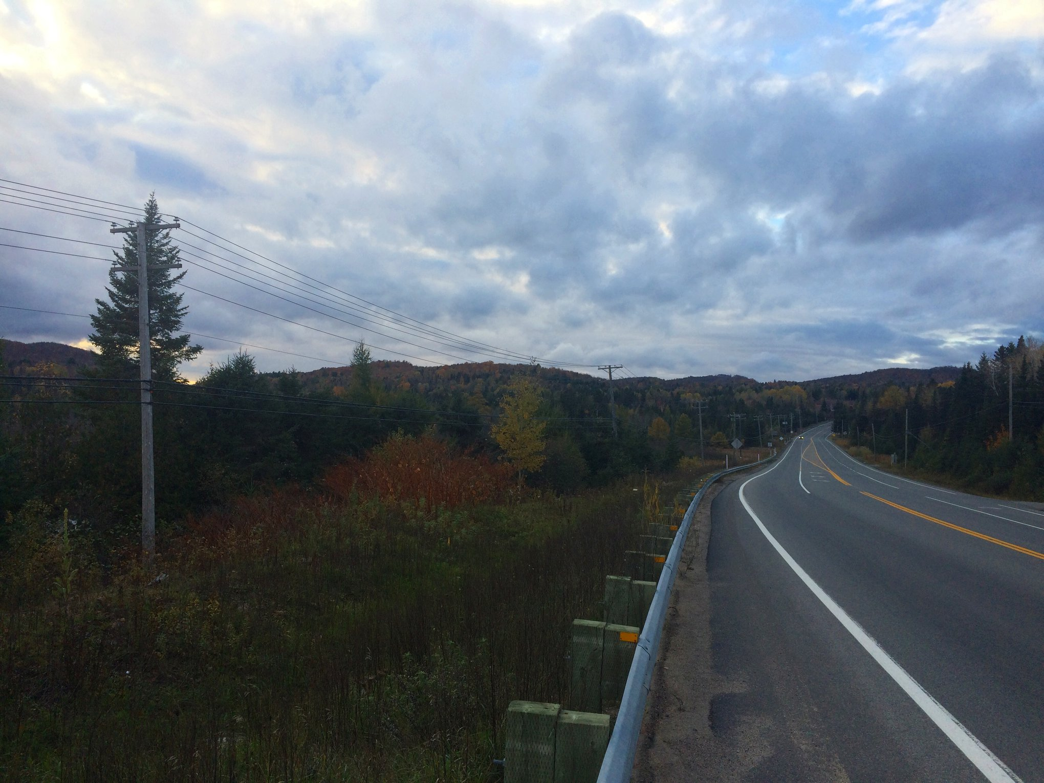 Looking northward along Route 117 on the northern outskirts of Sainte-Adèle.